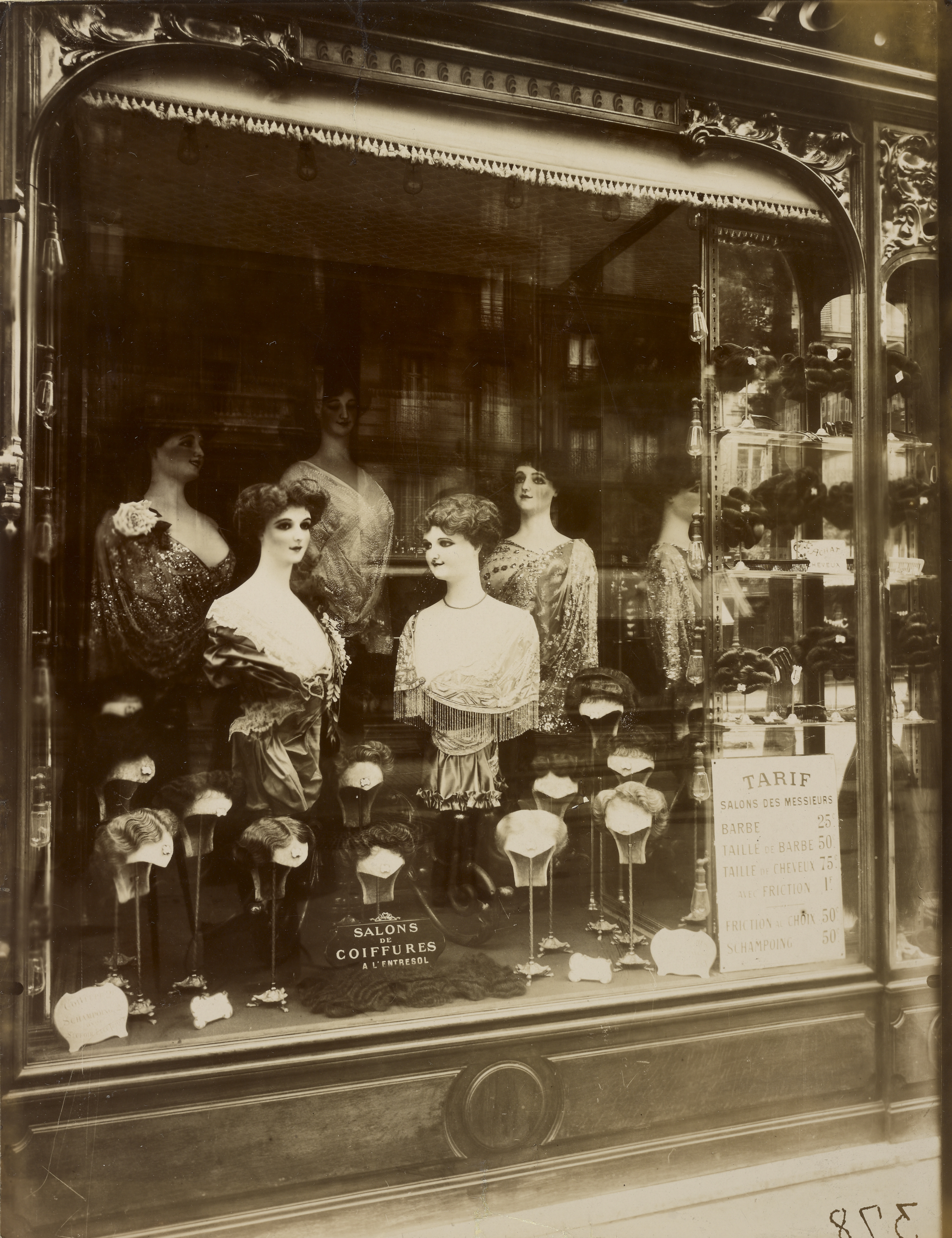 When creating this photograph of a hairdresser's shop window, Eugène Atget documented the fashionable pompadours and upsweeps of the period as well as the popular plunging necklines and draping shawls. This establishment offered a wide variety of hairstyling services from cutting to dressing and a selection of wigs, both full and partial. To make the shop's services and wares more alluring, the mannequins wear elaborate cosmetics and filmy, delicate fabrics. Beginning in the mid-1800s, when haute couture first appeared, Paris dictated the chic mode in women's styles. Fashion plates and journals throughout Europe and America illustrated French garments and accessories. Although Atget specifically avoided photographing subjects associated with fashion and individual display, this composition reveals his fascination for how shopkeepers exhibited their wares.